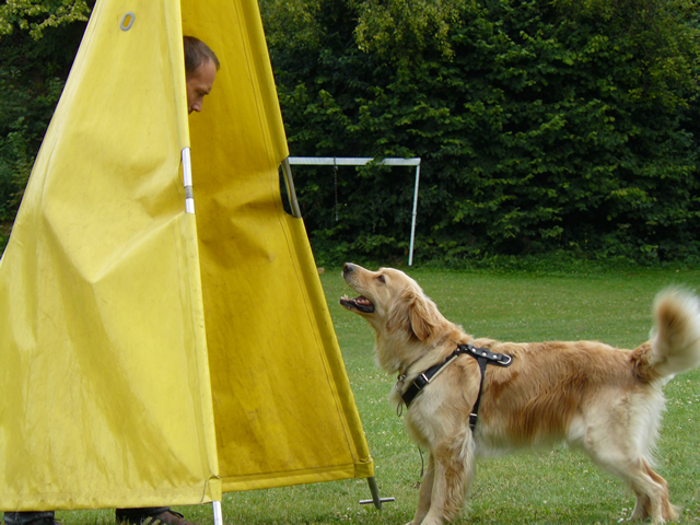 Blond working Hovawart female Ch.Royal Resie Gasko Prim.